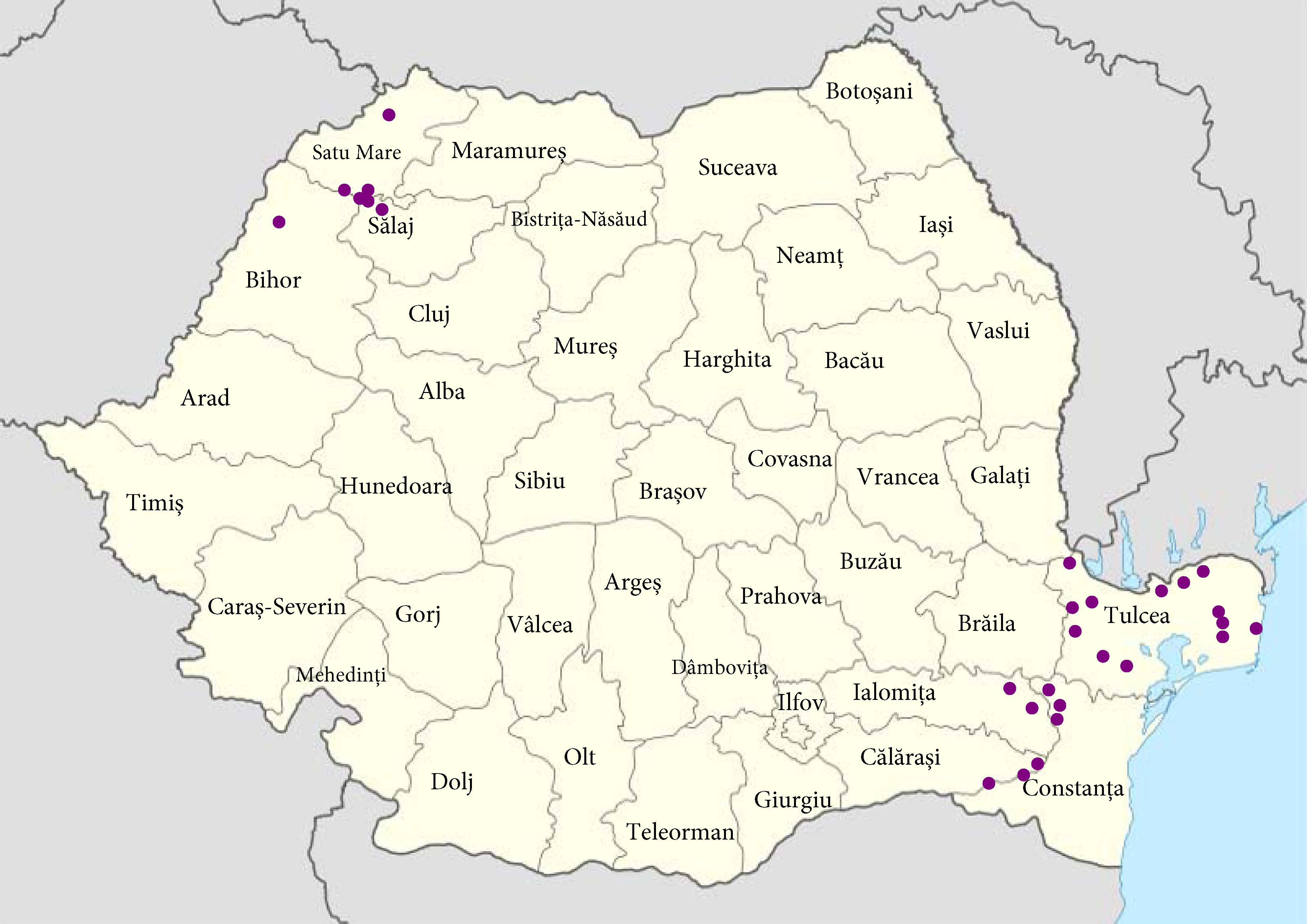 African Swine fever in Romania, Wild Boars. Updated Outbreak 19 September2017